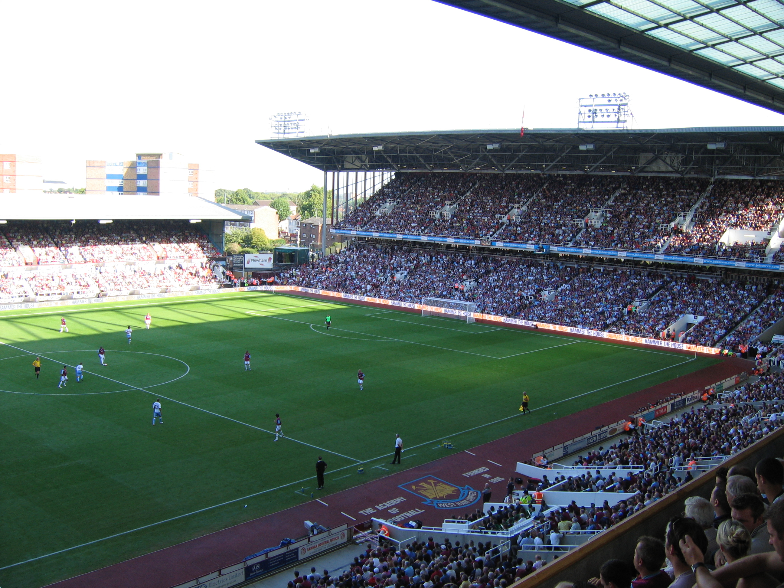 West Ham United FC's stadium, Upton Park; match in 2006 against Aston Villa(?).